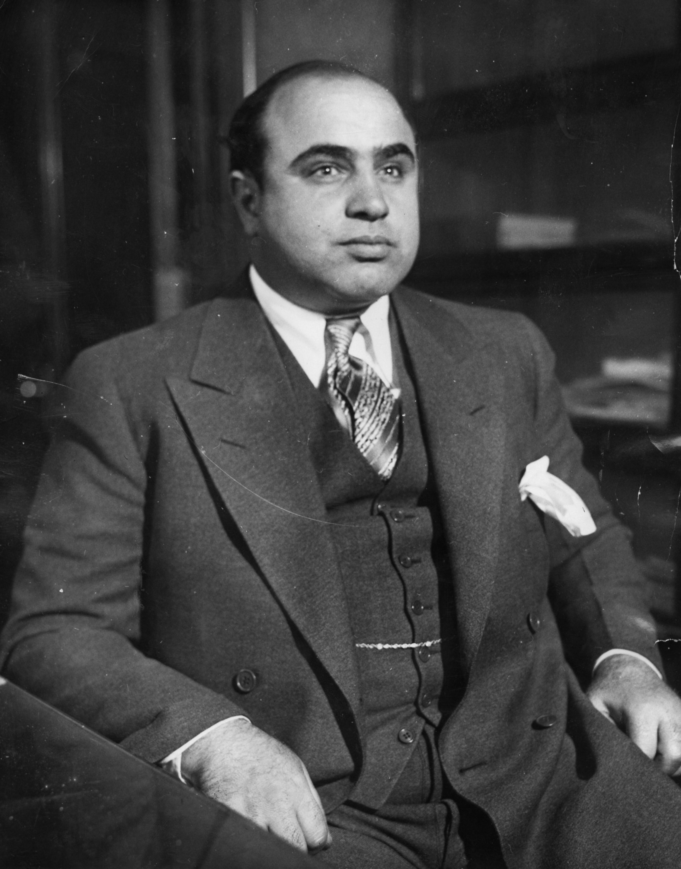 "Scarface" Al Capone is shown here at the Chicago Detective bureau following his arrest on a vagrancy charge as Public Enemy No. 1 in this 8 x 10 black & white original wire photograph that has attached the original news bureau caption on verso, dated “2-26-31.” The caption describes his appearance before the Chicago Detective Bureau on vagrancy after a court appearance at the hands of Federal marshals on contempt. Other date stamps and notations refer to the photograph’s subsequent use by the newspaper, including another article attached, dated January 26, 1947 upon Capone’s death. Capone earned the nickname "Scarface" from a bar brawl when he was 18 years old, working as a bartender and bouncer for gangster Frankie Vale. Capone went on to become one of the most ruthless gang leaders ever, whose Chicago operations were routinely disrupted by famous federal agent Eliot Ness (The Untouchables). Comes with a certificate that unconditionally guarantees the authenticity of this item.